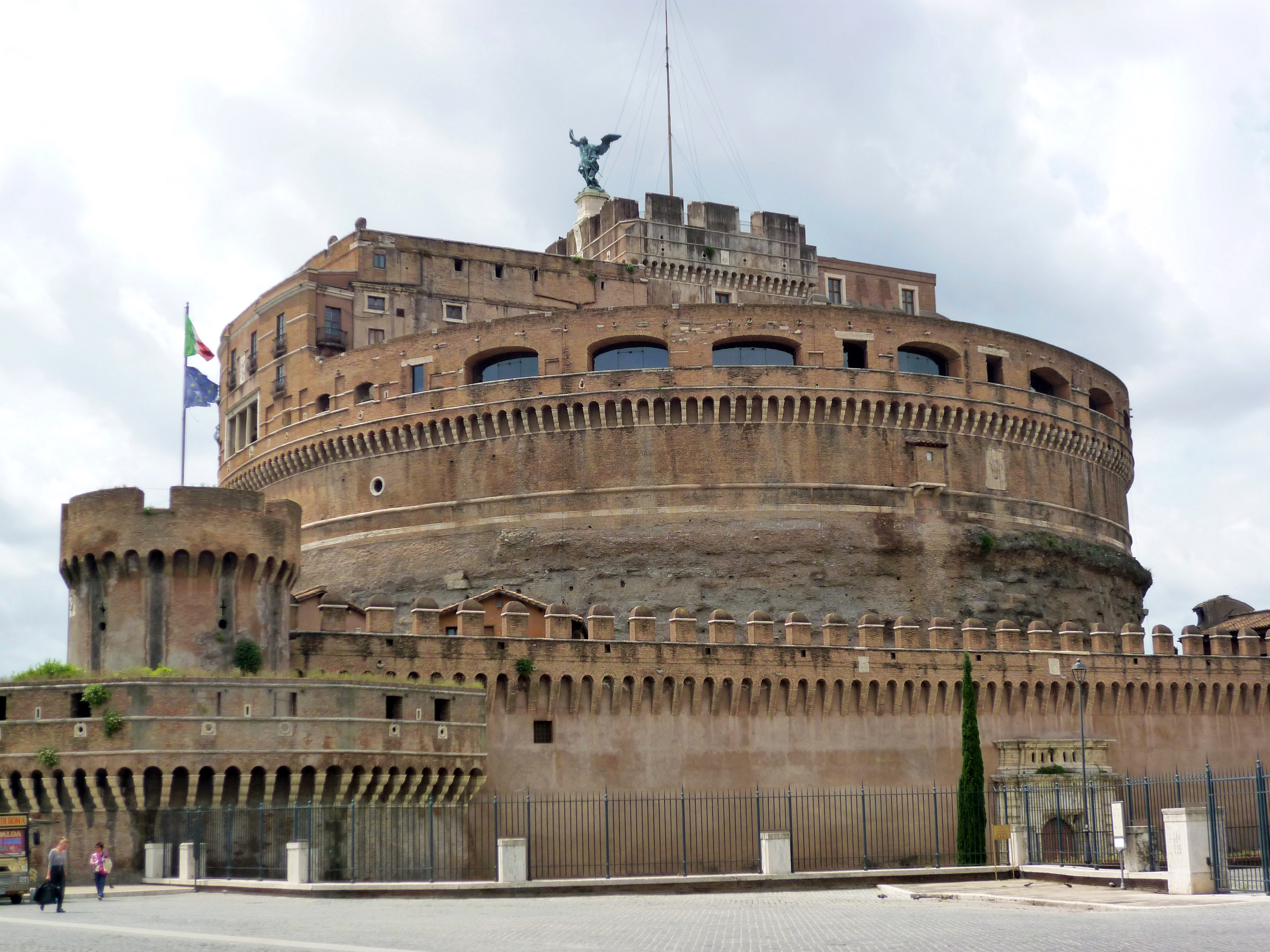 Mausoleum of Hadrian (castel Sant'Angelo) - Rome